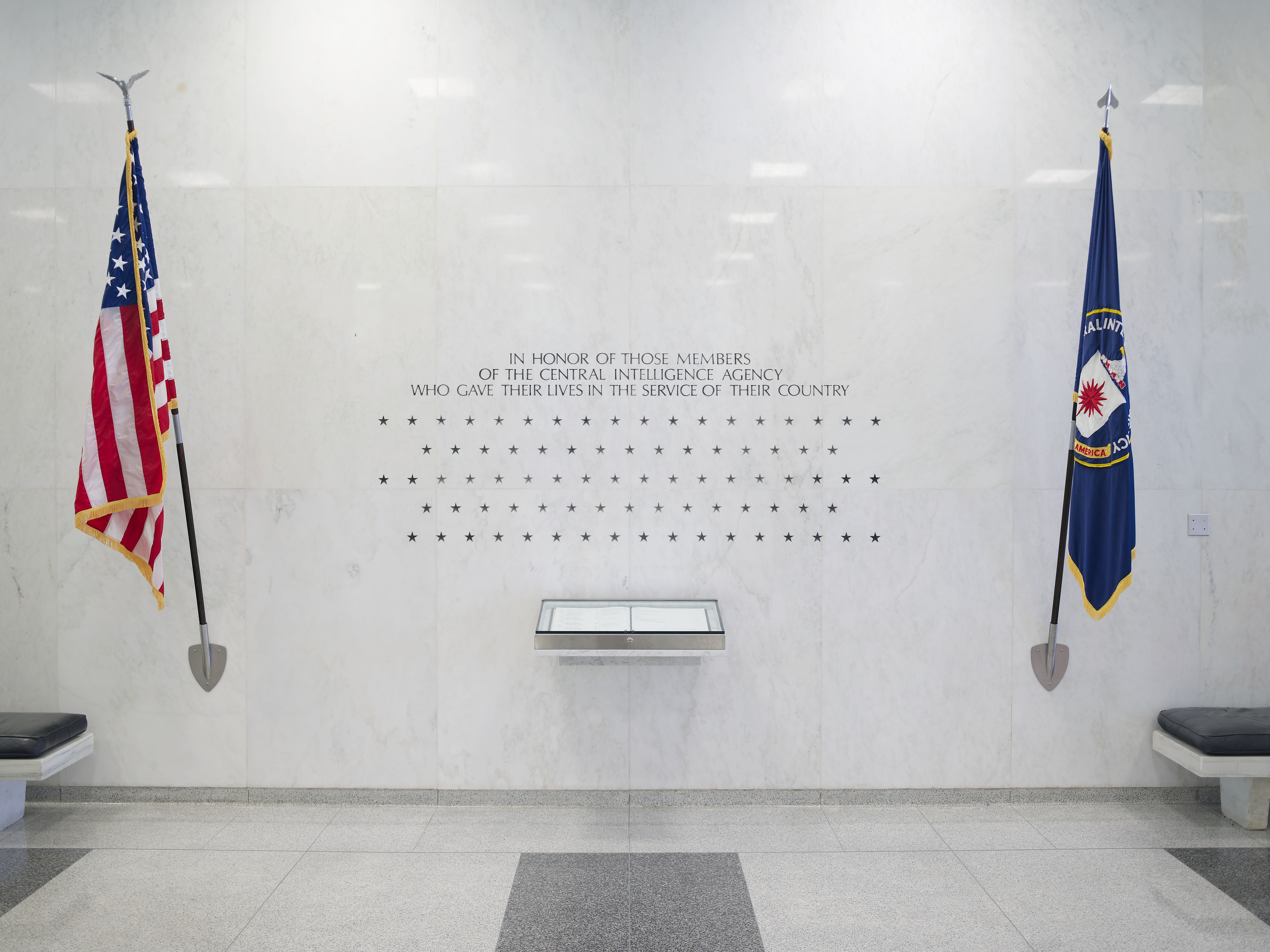 The Memorial Wall is on the north wall of the Original Headquarters Building lobby. This wall of 103 stars stands as a silent, simple memorial to those CIA officers who have made the ultimate sacrifice. The Memorial Wall was commissioned by the CIA Fine Arts Commission in May 1973 and sculpted by Harold Vogel in July 1974. To learn more about the CIA, visit